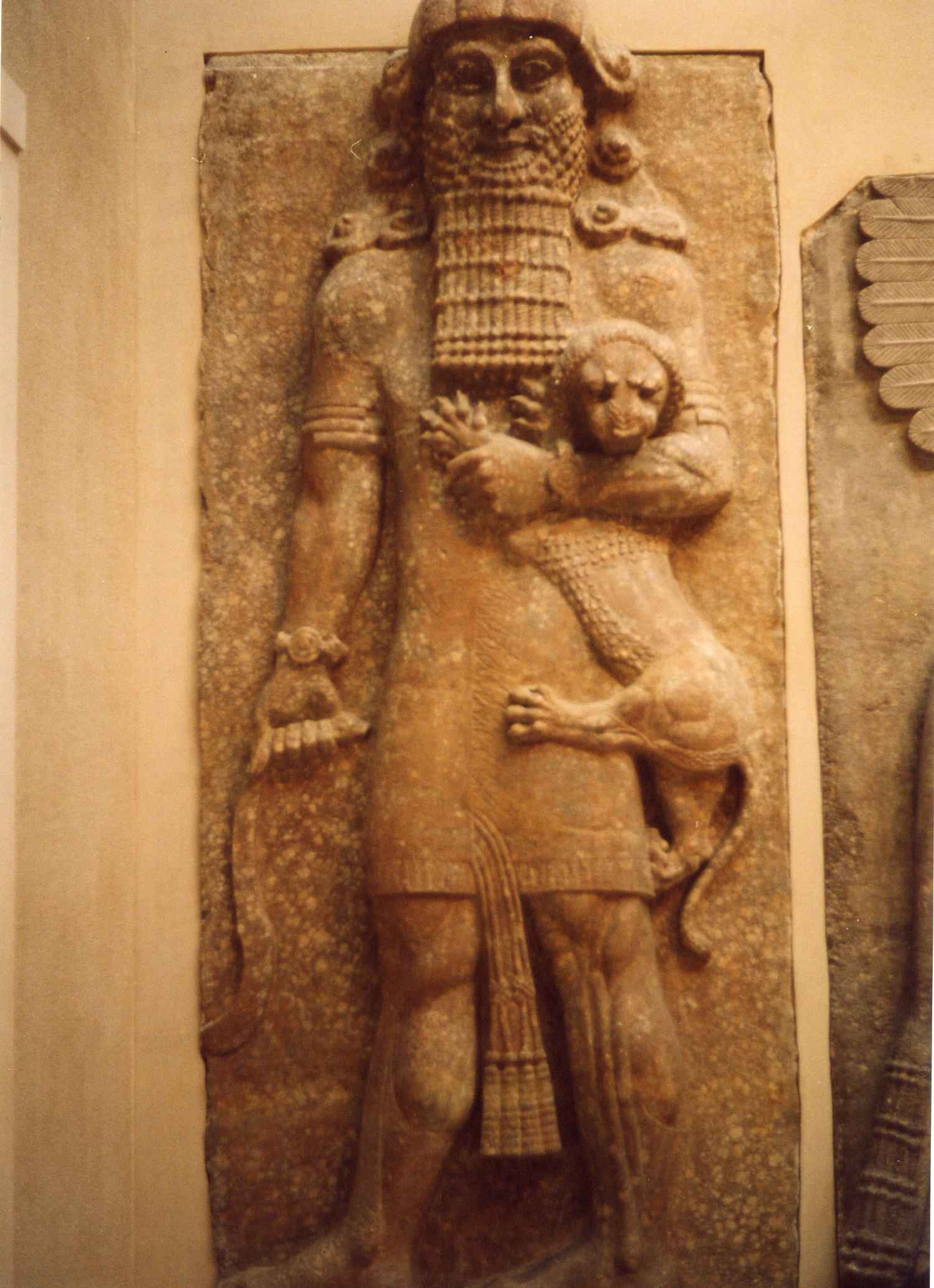 Hero mastering a lion. From the palace of Sargon II at Dur Sharrukin (now Khorsabad, near Mossul), 713-706 BC.